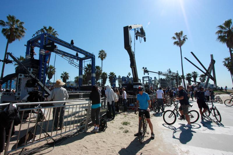 The course and camera positions to the American Ninja Warrior season 4 regional course in Venice Beach, California. Here the G4 TV channel is filming competitor auditions for the Northwest Region as passersby look on (see also image for